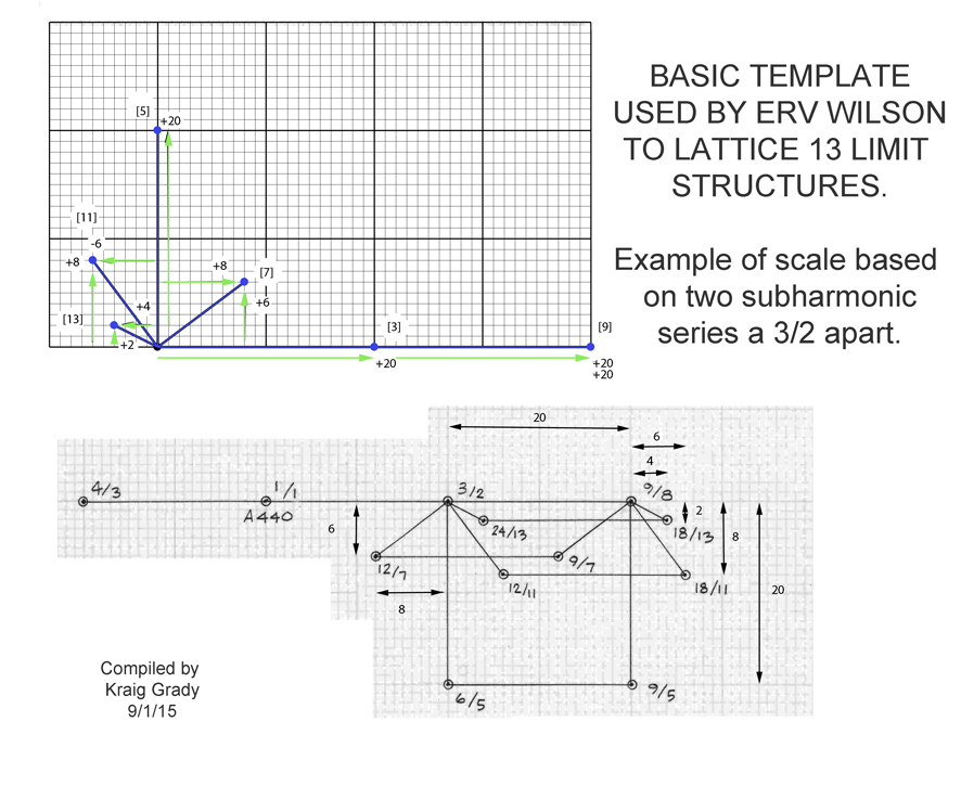 This provides a template for plotting musical scales that use a large number of different harmonics. File was made extracting images from the wilson archives